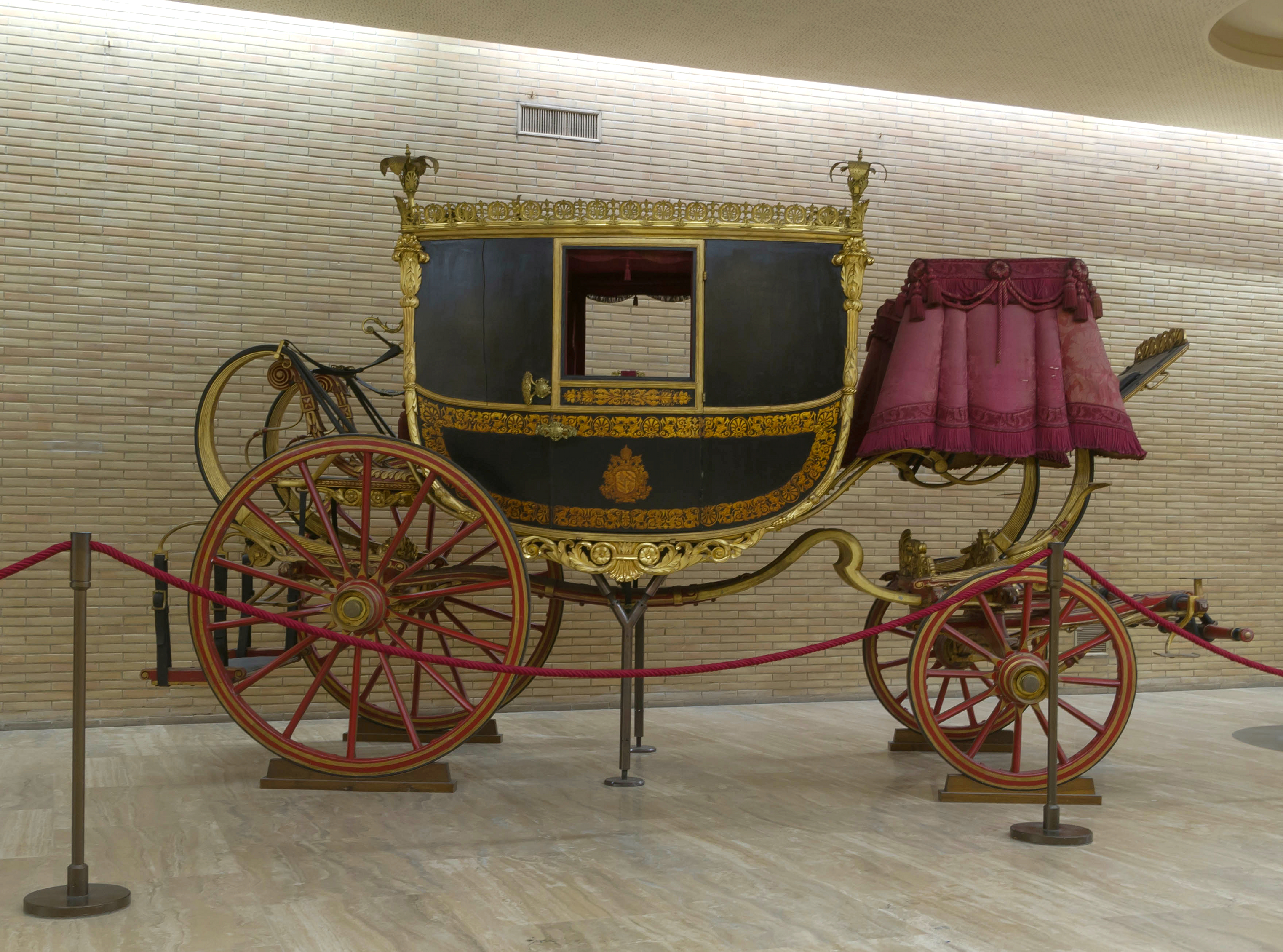 Carriage of Popes Pius IX (visible CoA) and Saint Pius X (CoA on other side), end of 19th-century, Carriages museum, Vatican City.